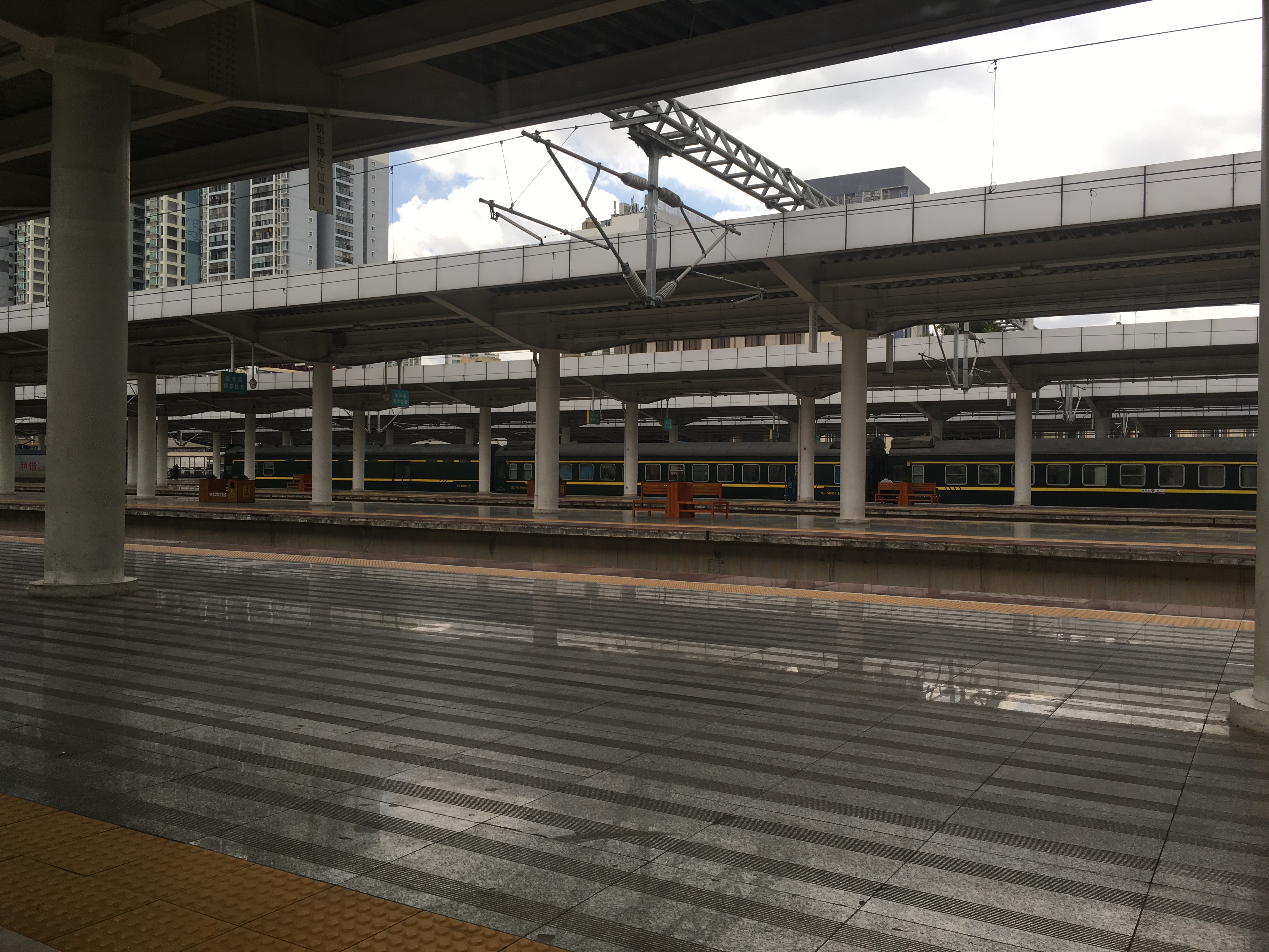 Empty platform at Nanningdong station, with an older style train in the background.